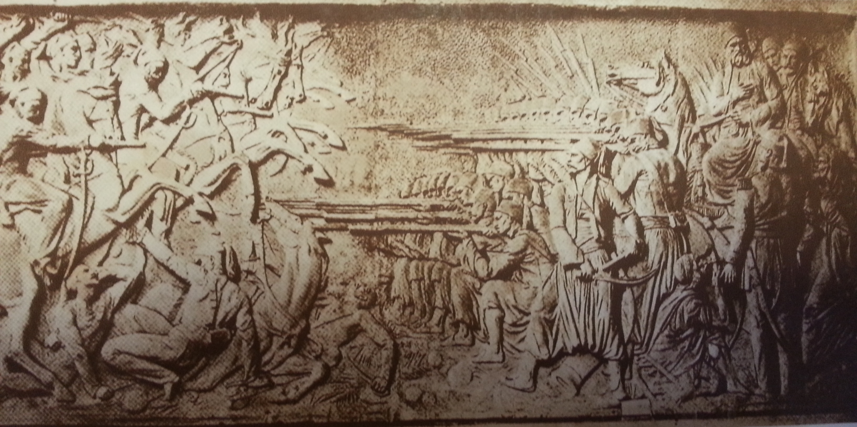 Ibrahim Pasha leading his Army in the battle of Konya. Photo of a Medallion Presented to Dar Al-Kutub Al-Misryya Publishing house, by Mahmud Fakhri Pasha.